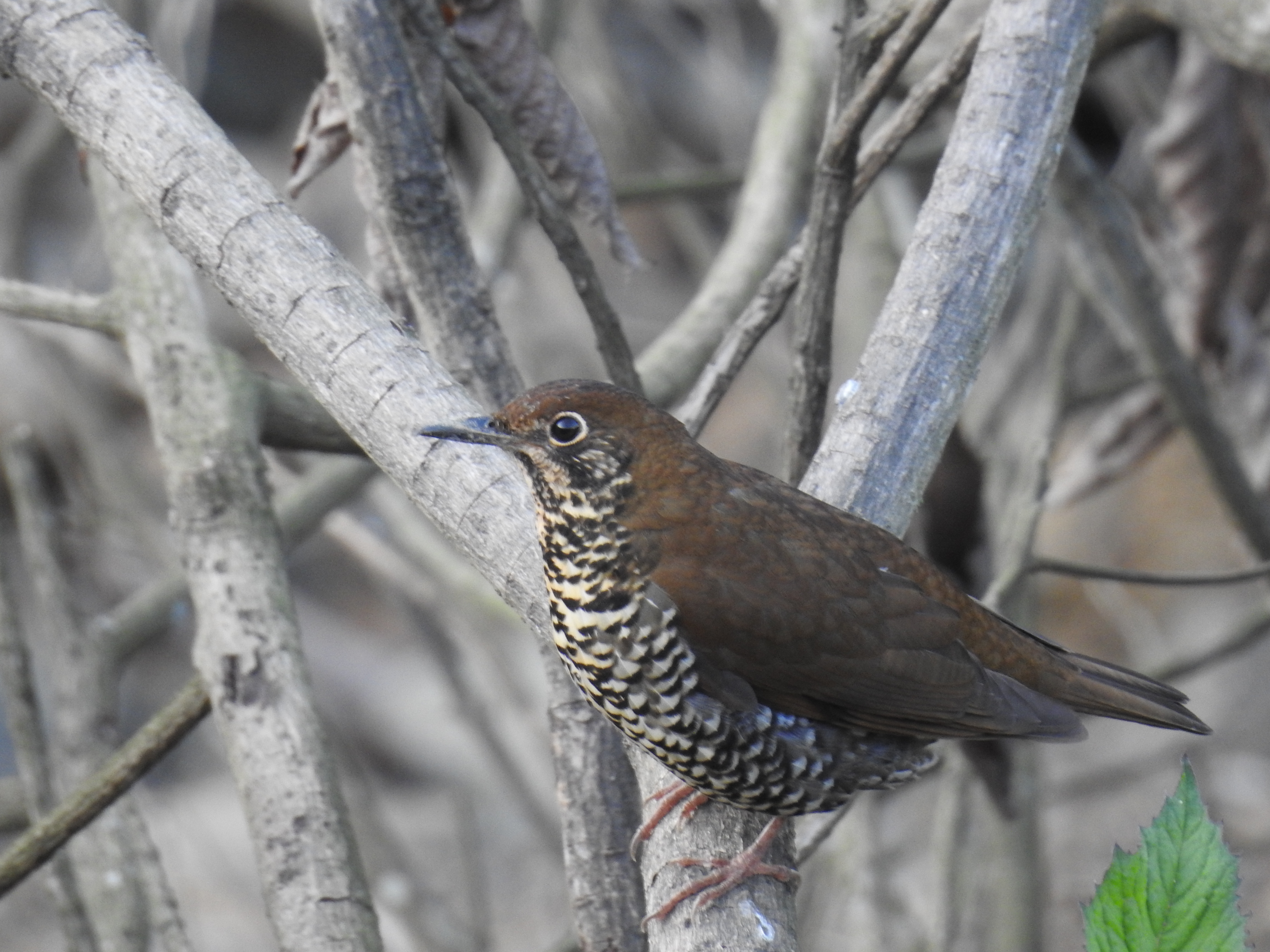 Himalayan forest thrush (Zoothera salimalii) by the banks of the Siang river, East Siang district, Arunachal Pradesh